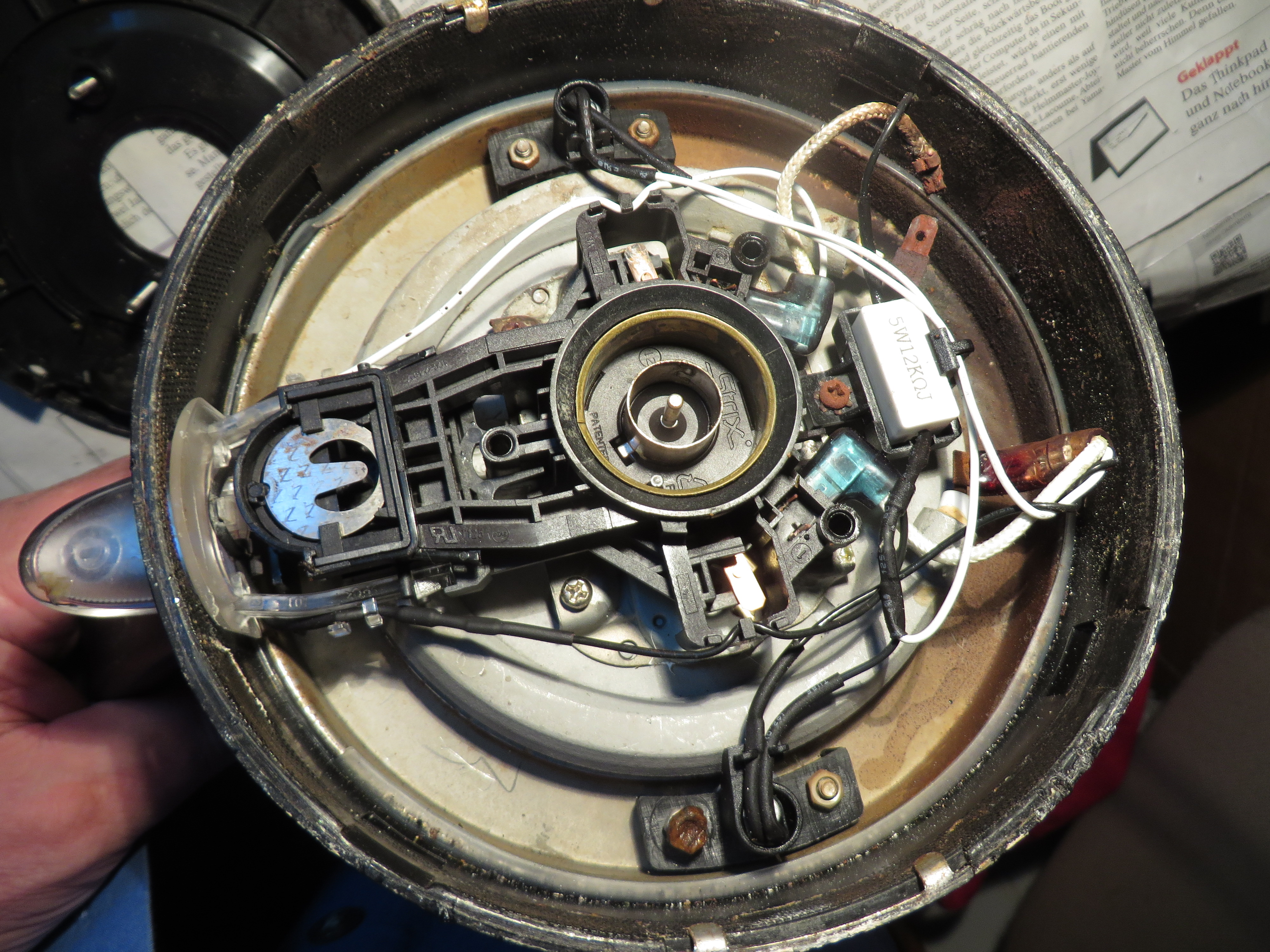 The bottom of an electric kettle with a Strix Ltd kettle control, and a cable to the heating element being defect